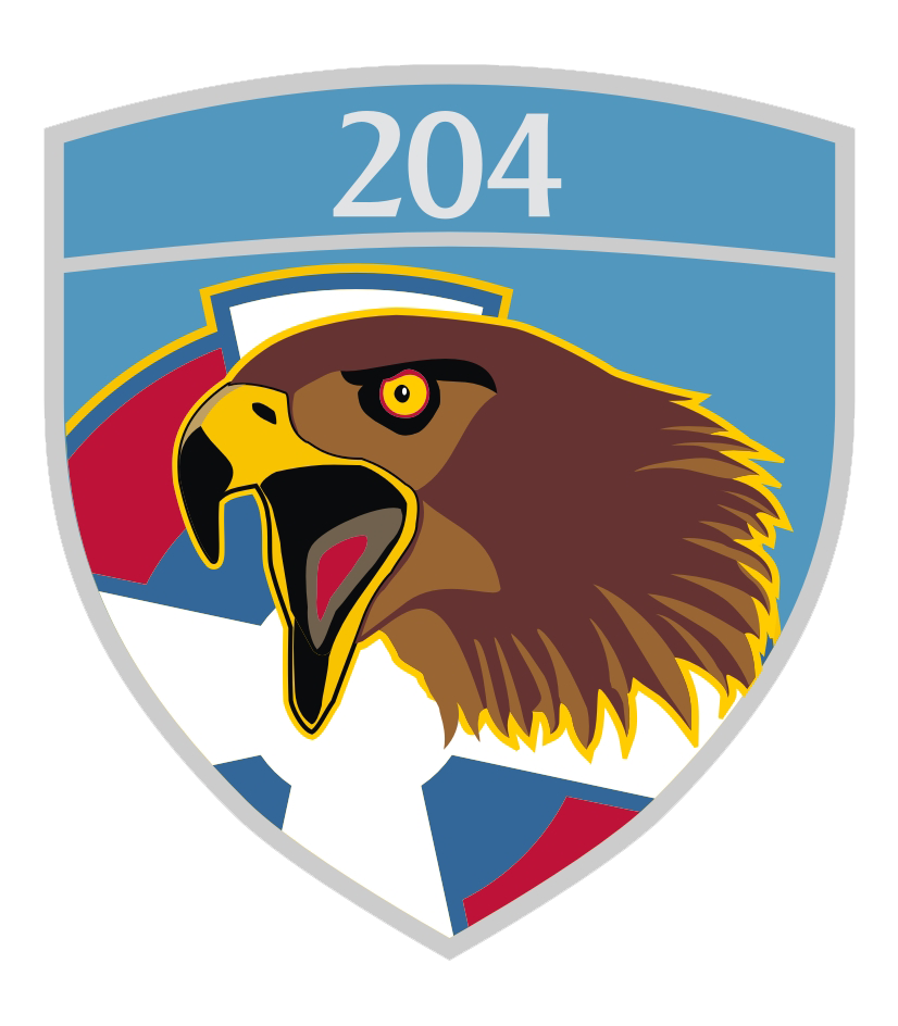 204th Air Brigade Distinctive Unit Insignia